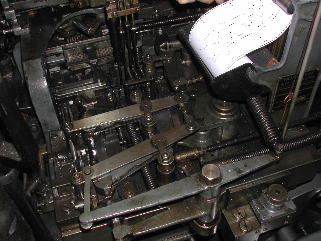 Monotype Letter Casting Machine perforated Tape